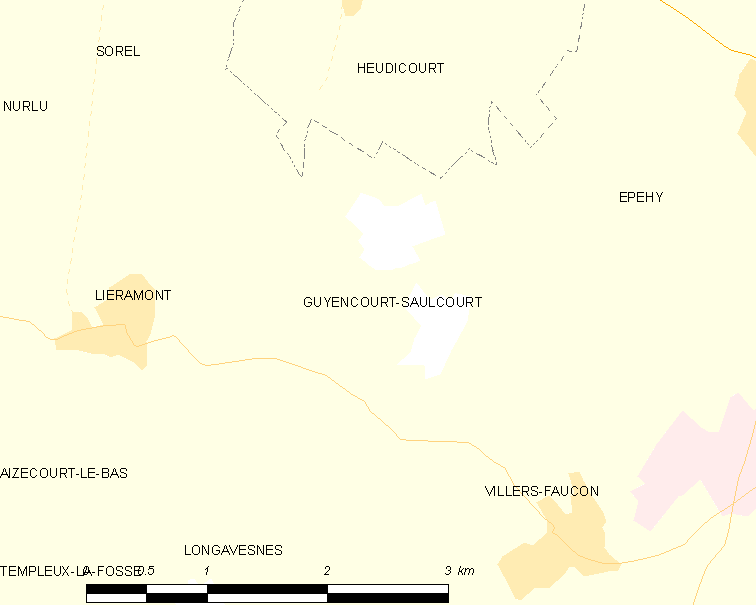 Map of French municipality Guyencourt-Saulcourt